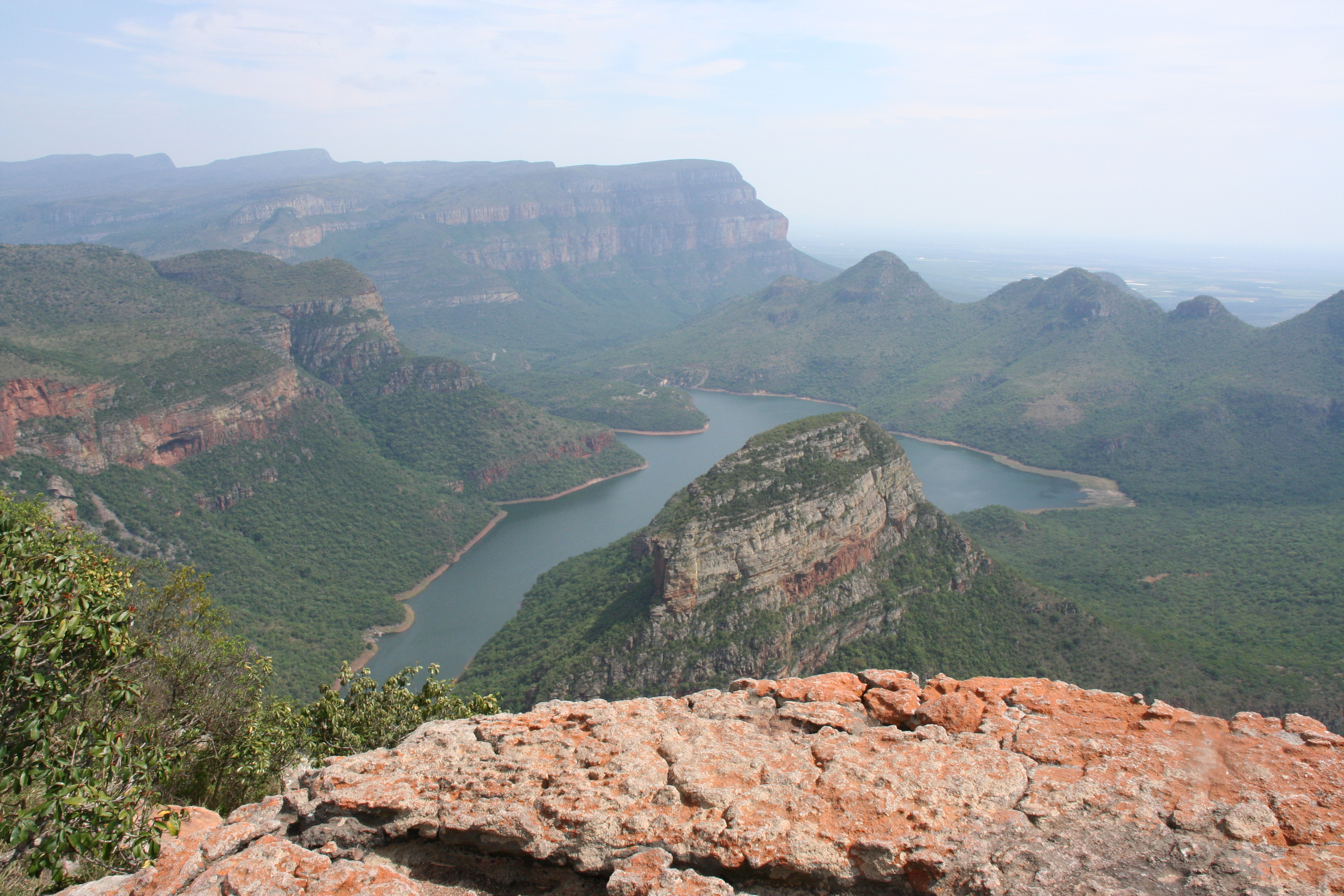 Blyde River Canyon